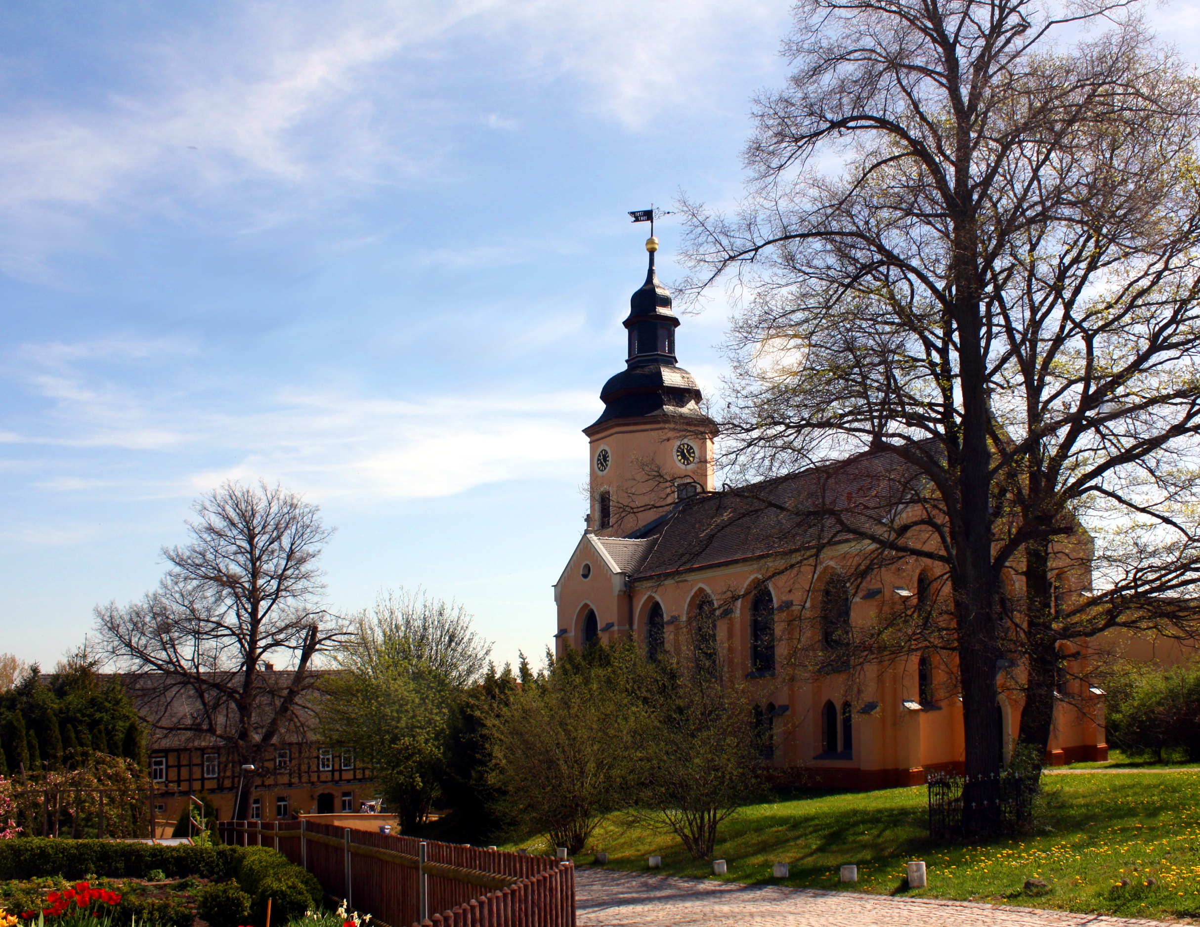 Church in Rückersdorf near Gera/Thuringia